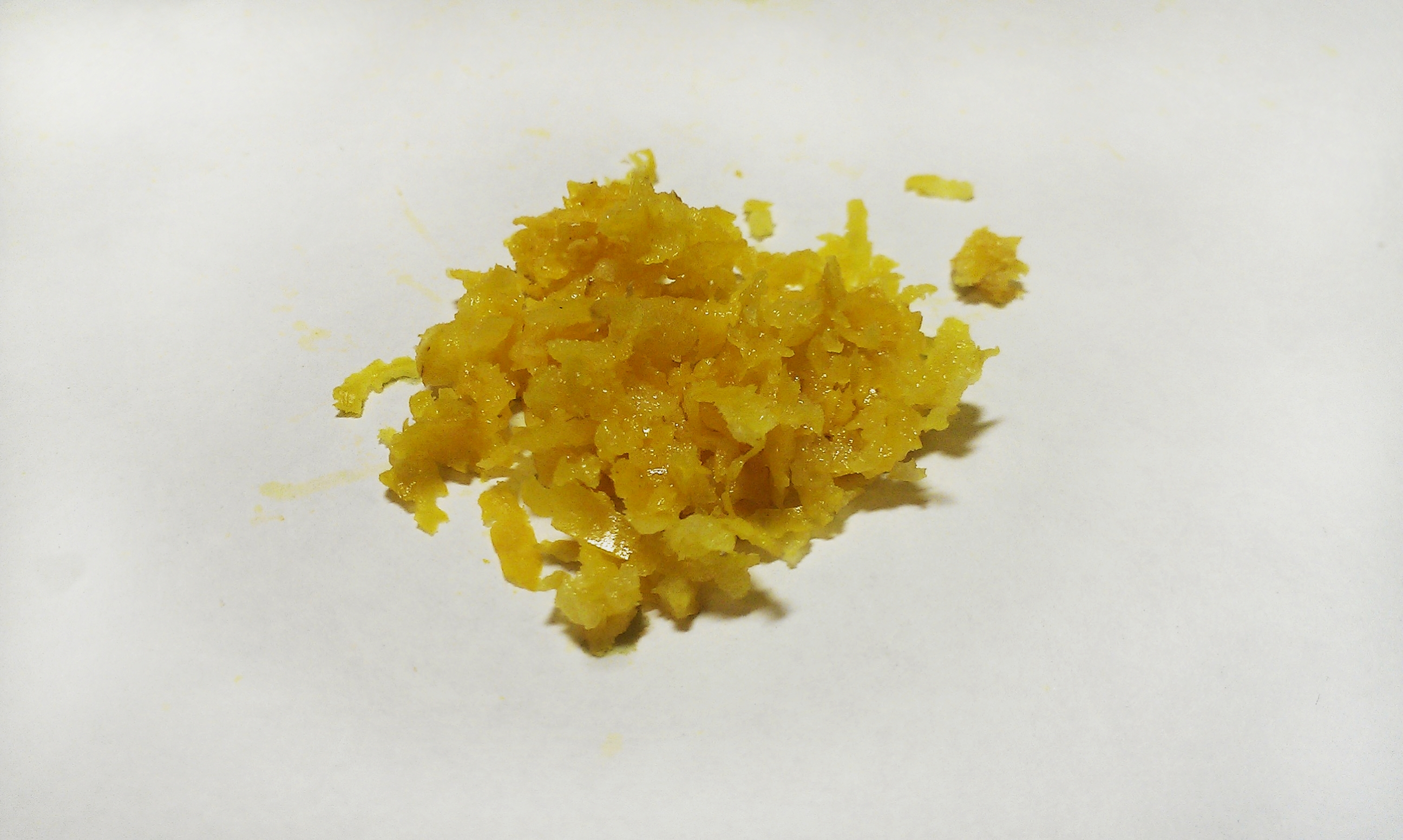 Fresh lemon flavedo